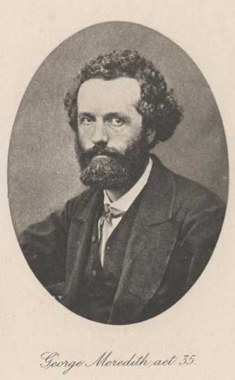 George Meredith at age 35.